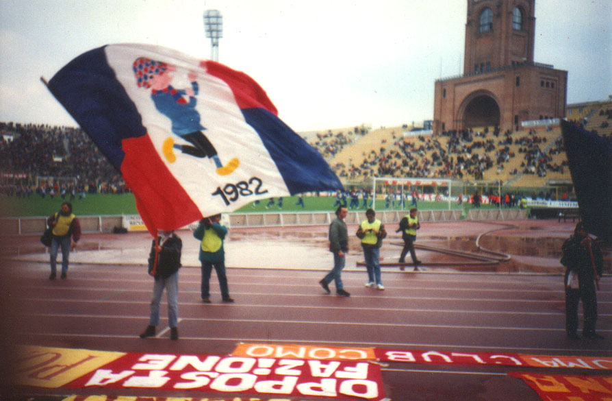 AS Roma and Bologna FC fans when they were friends, March 1991.